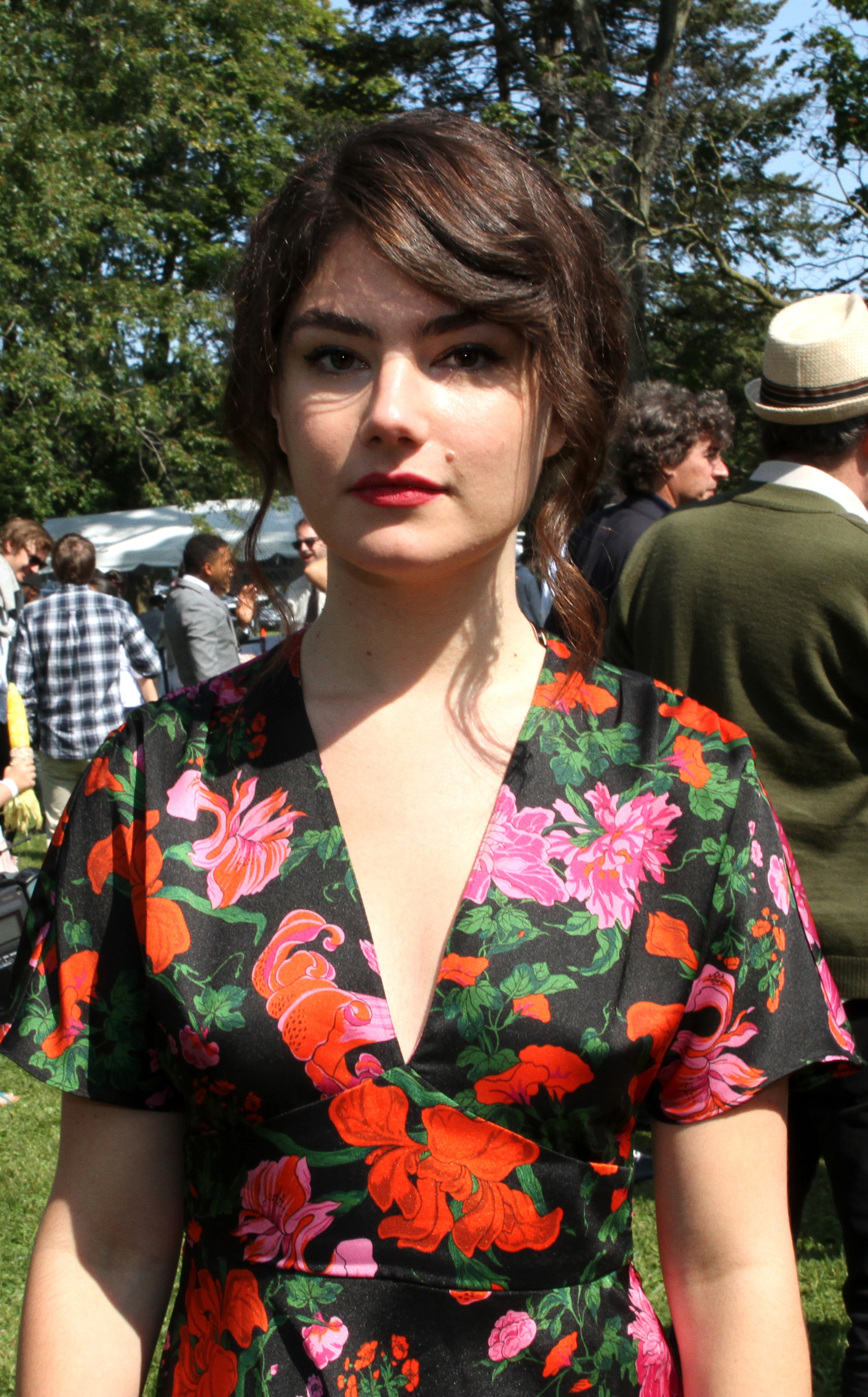 Katie Boland at the 2017 CFC Annual BBQ Fundraiser. Photo by Danilo Ursini.